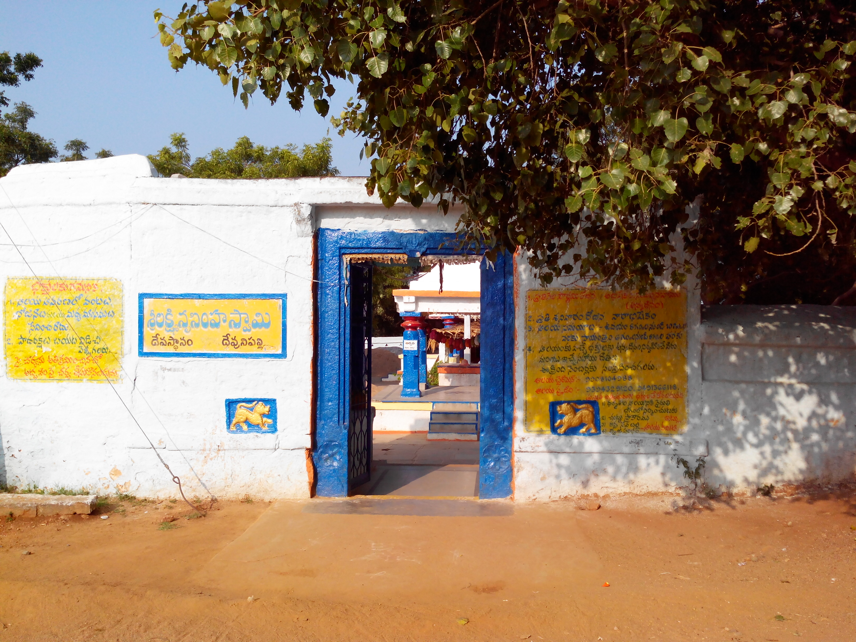 Main entrance of Sri Lakshmi Narasimha Swamy Temple, Near Devunipalli Hill